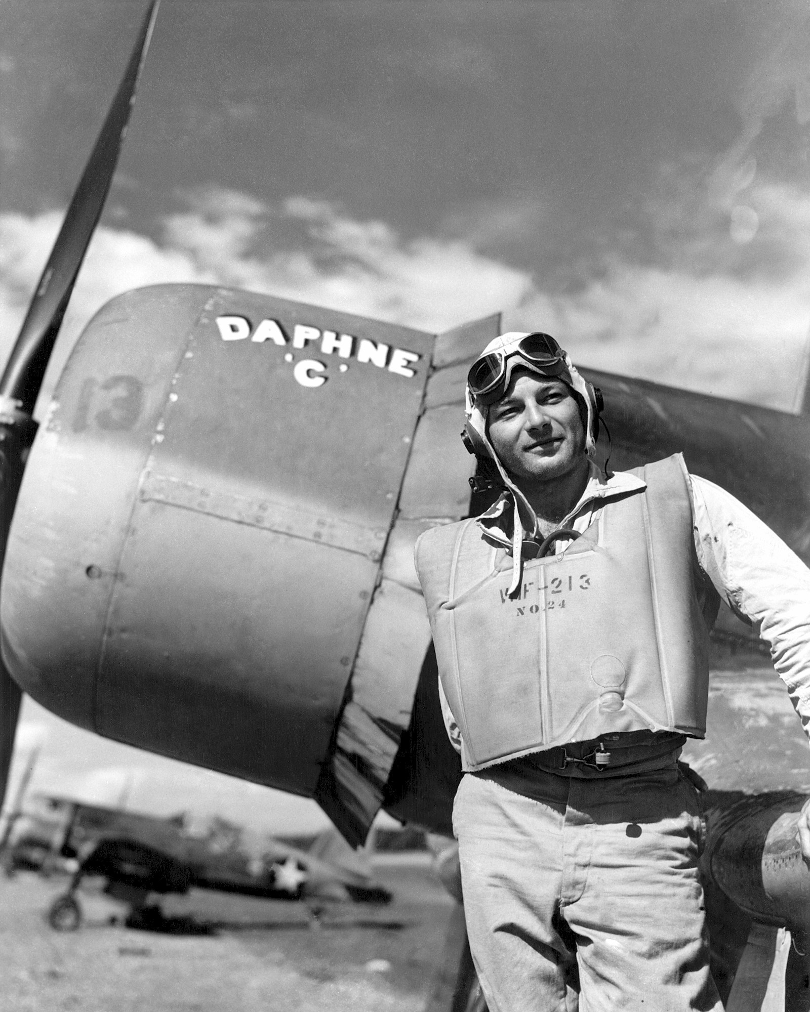 United States Marine Corps First Lieutenant (1LT) James N. Cupp from Marine Fighting Squadron 213 (VMF-213) on Guadalcanal, official portrait, 1 June 1943.